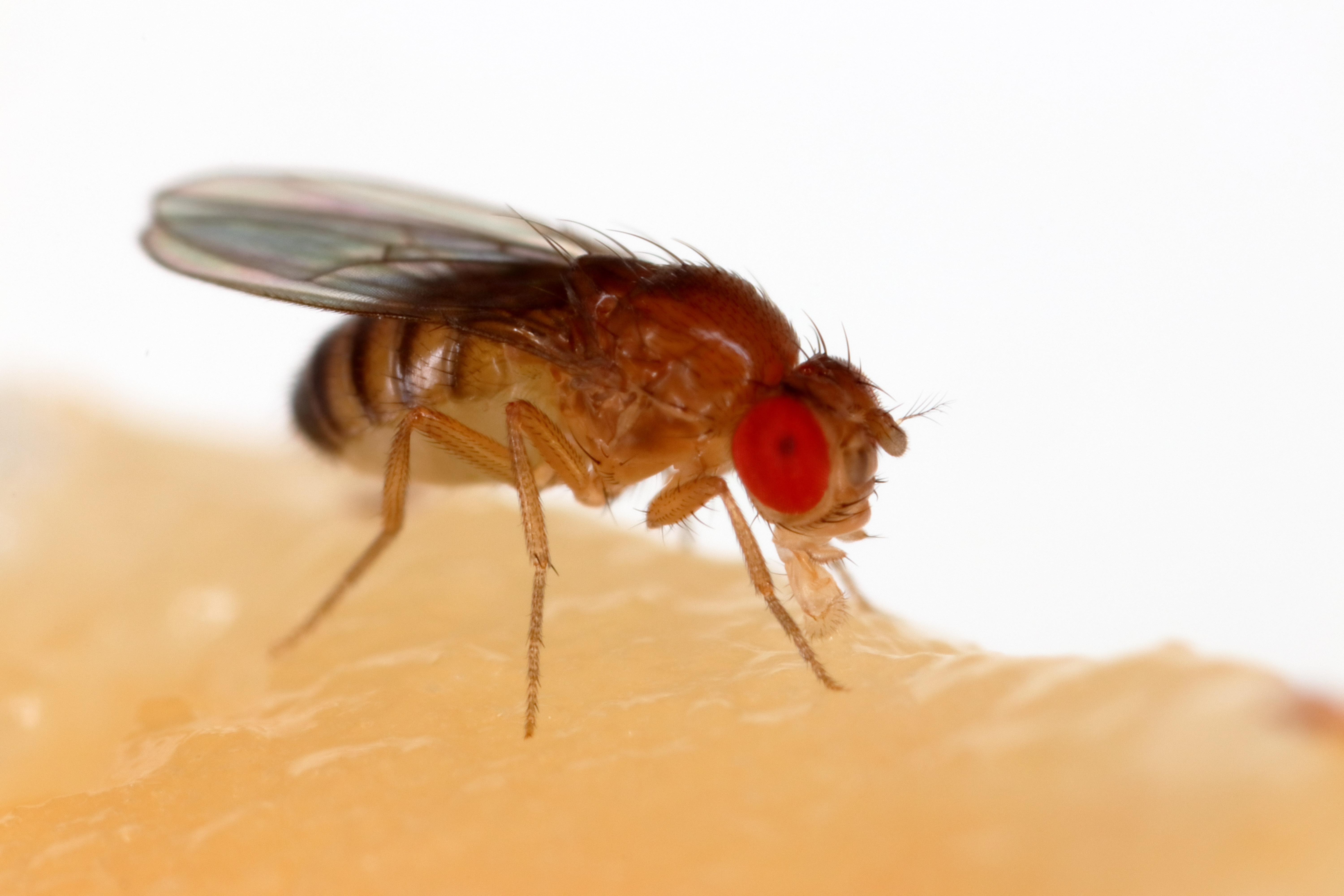 A fruit fly (Drosophila melanogaster) feeding off a banana.